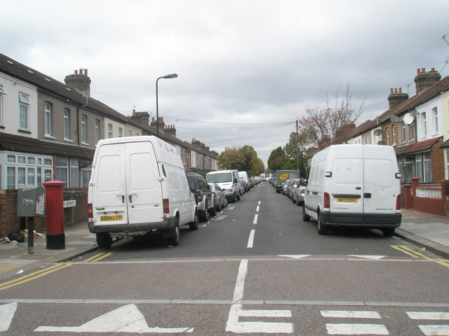 Looking westwards along Clarence Street